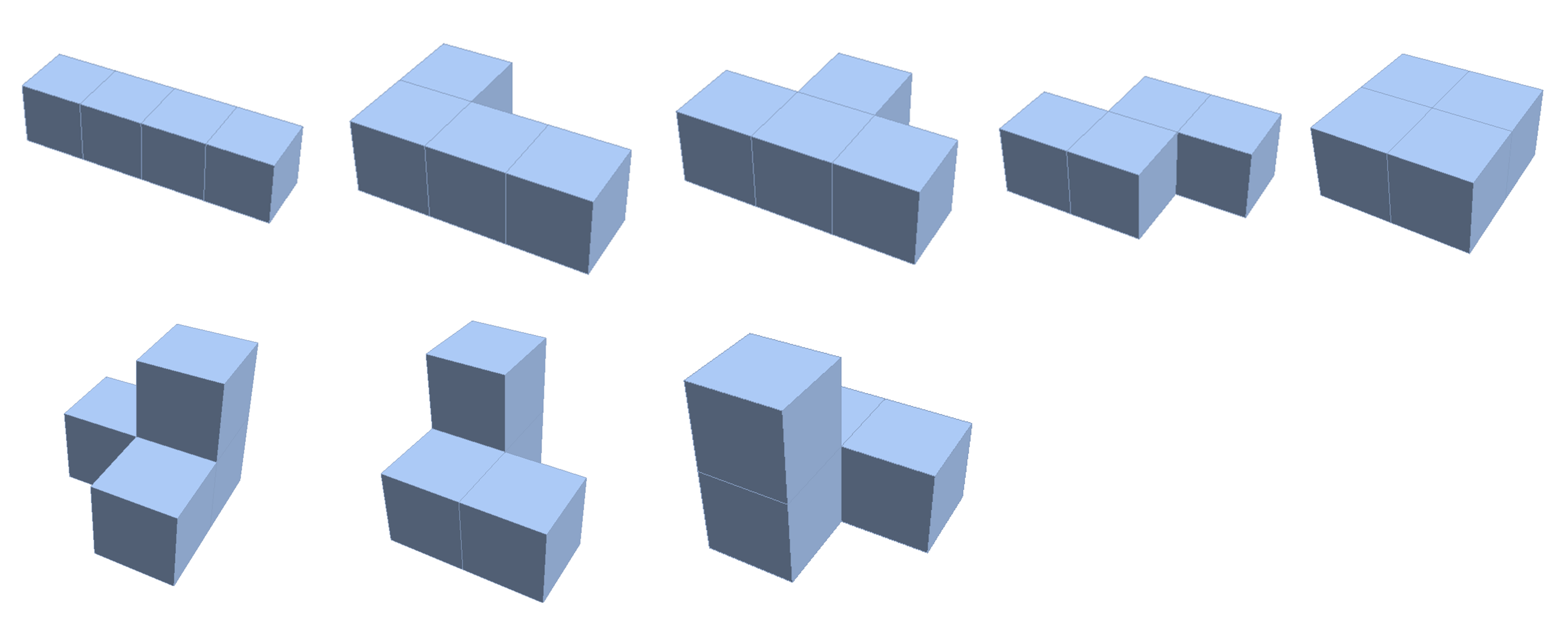 The 8 tetracubes: I, L, T, S, square, tripod, left screw, right screw